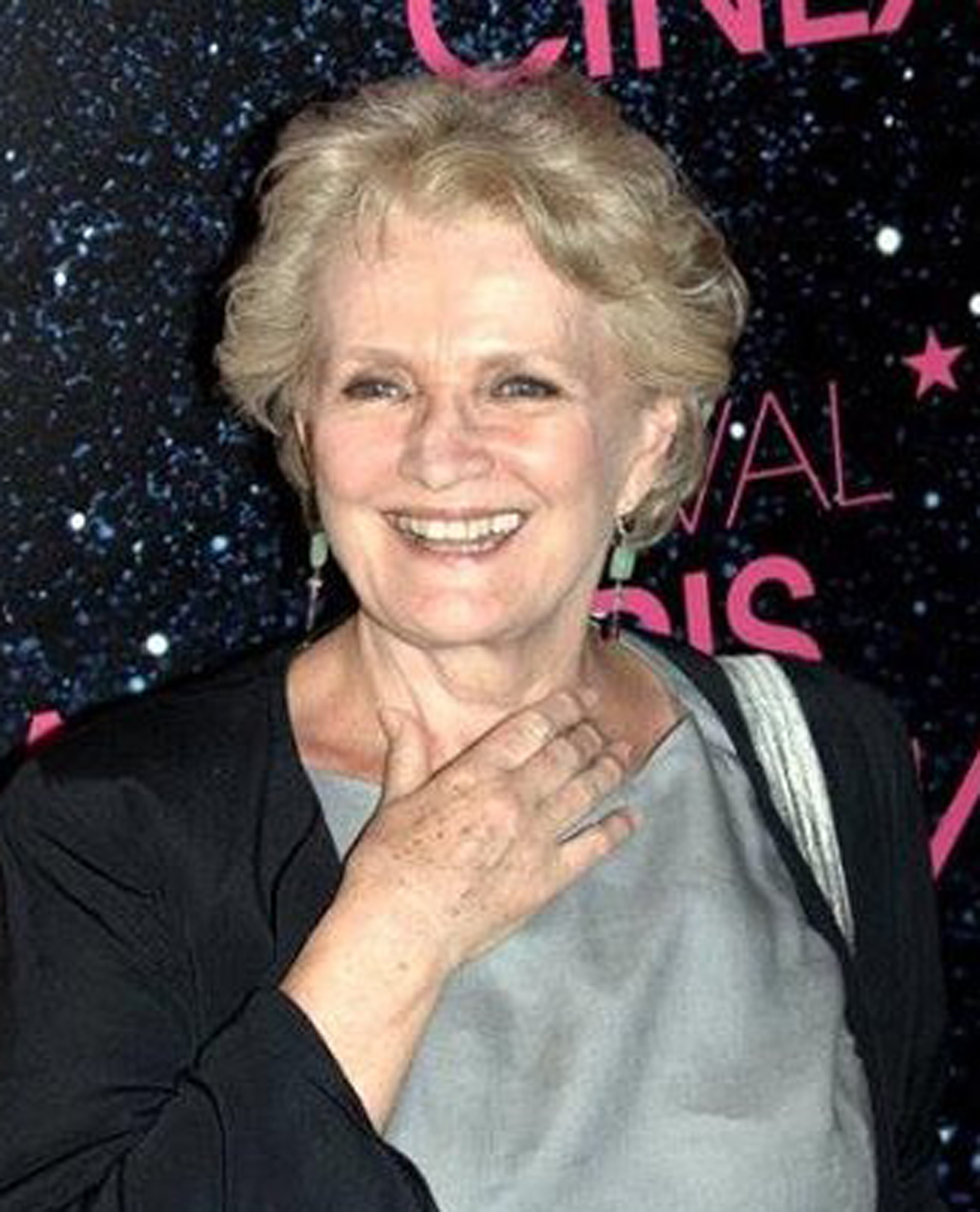 Marie-Christine Barraut at the première of the film Le Grand méchant loup, 9 July 2013